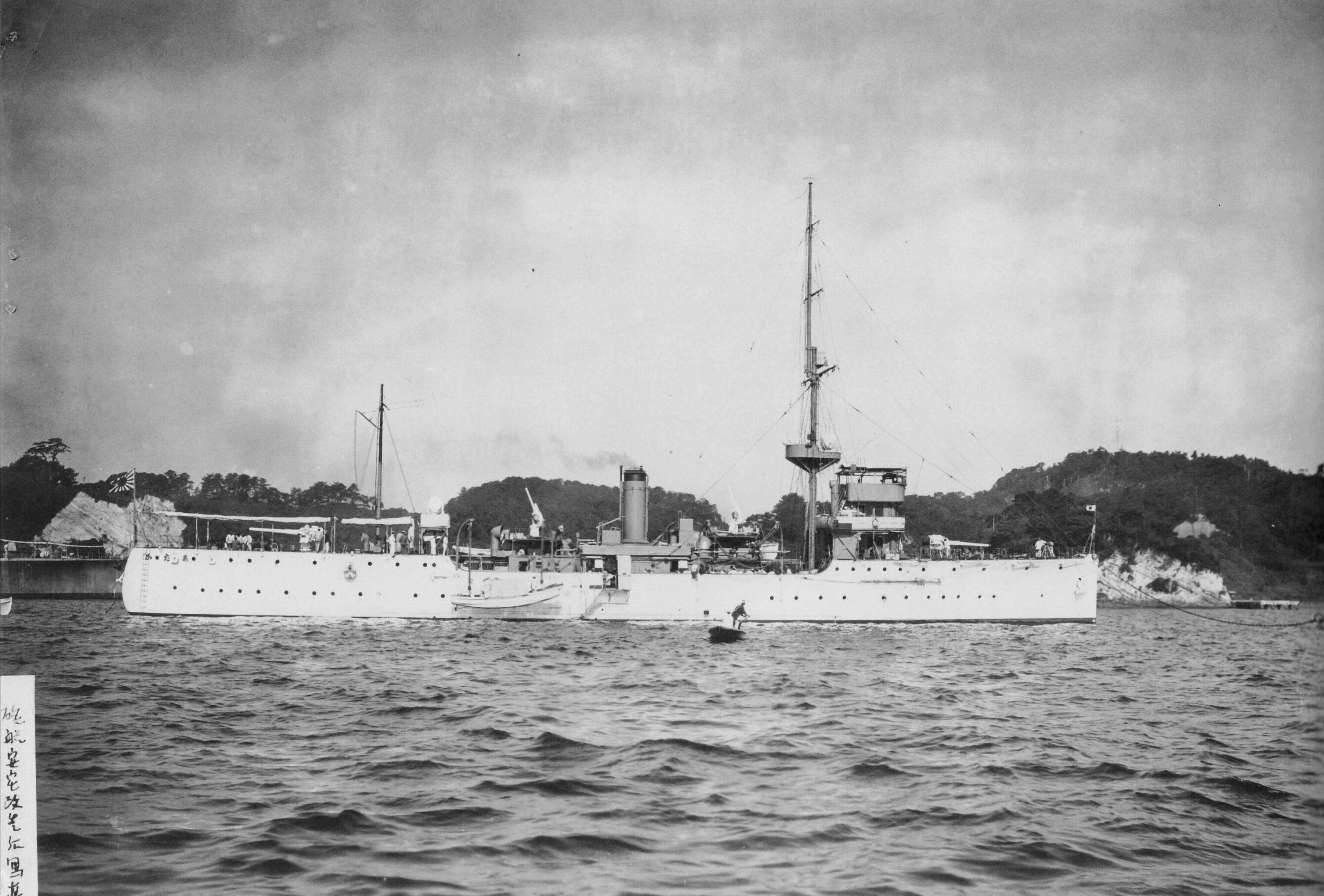 IJN gunboat ATAKA at Yokosuka Naval Base.